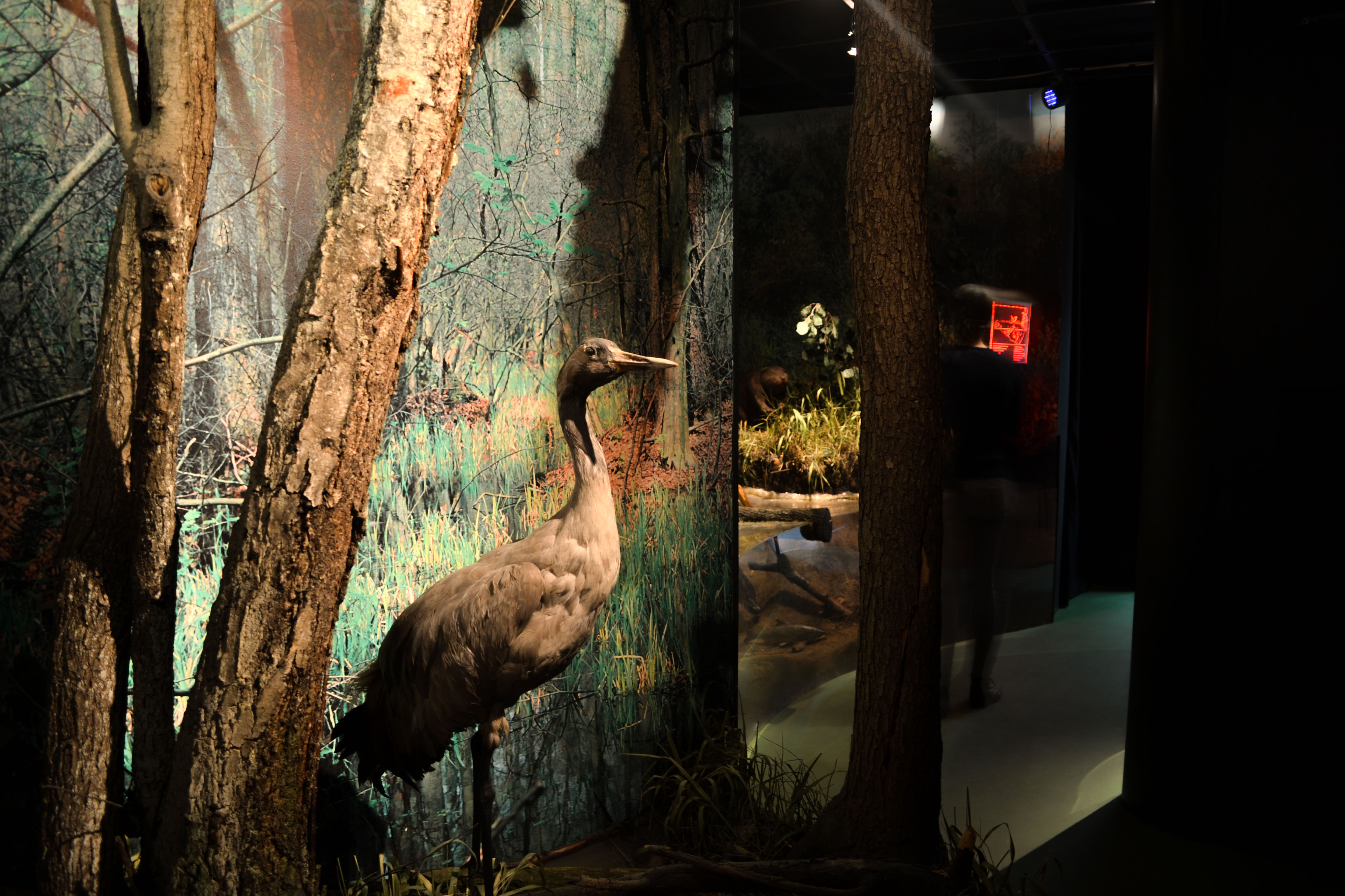 Natural exhibition, Jacek Malczewski Museum in Radom, Poland